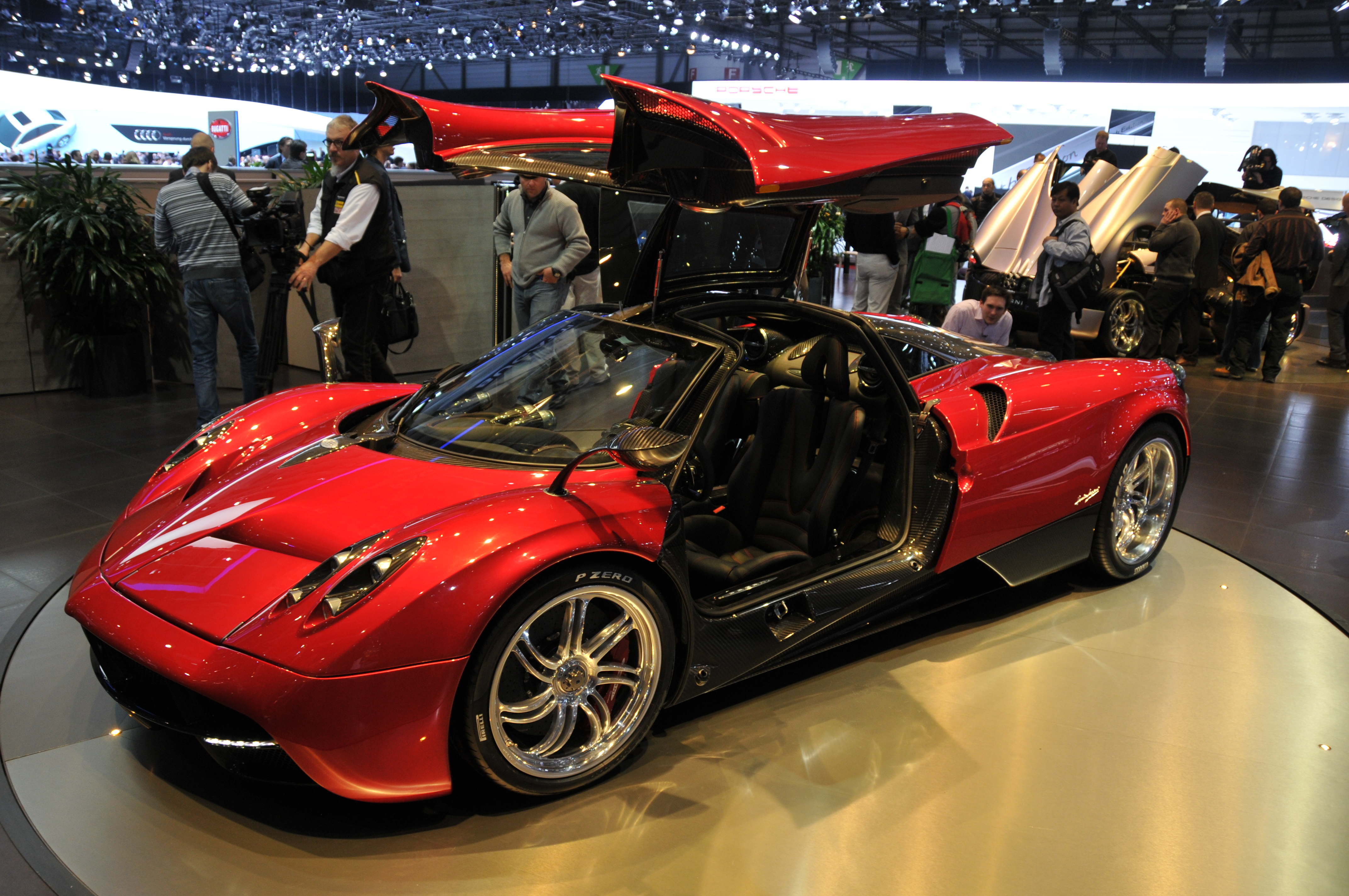 Pagani Huayra presented 2011 at the Geneva Motor Show